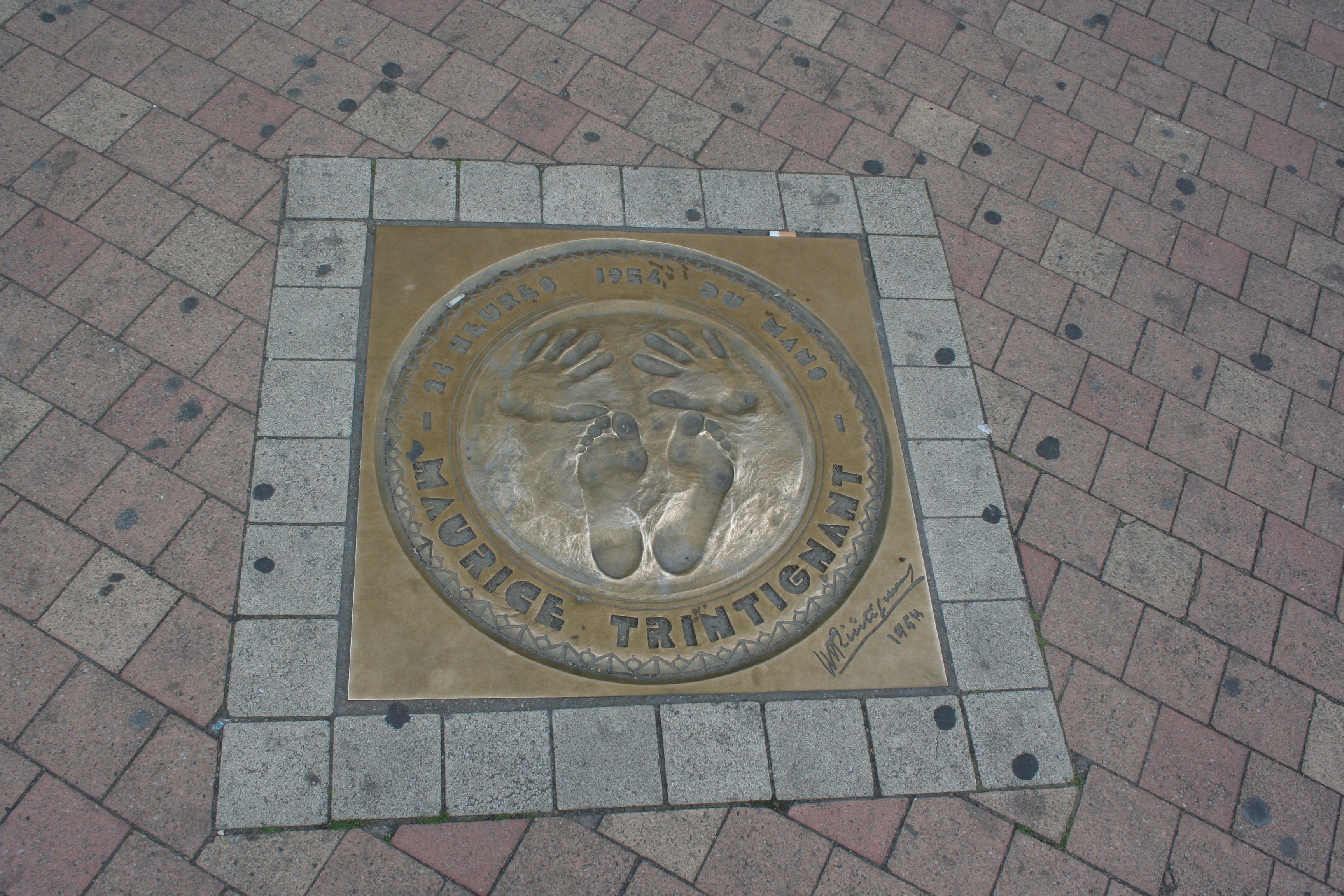 Handprints, footprints, and signature from Maurice Trintignant, winner of the 1954 edition of the 24 Hours of Le Mans, at Le Mans, France